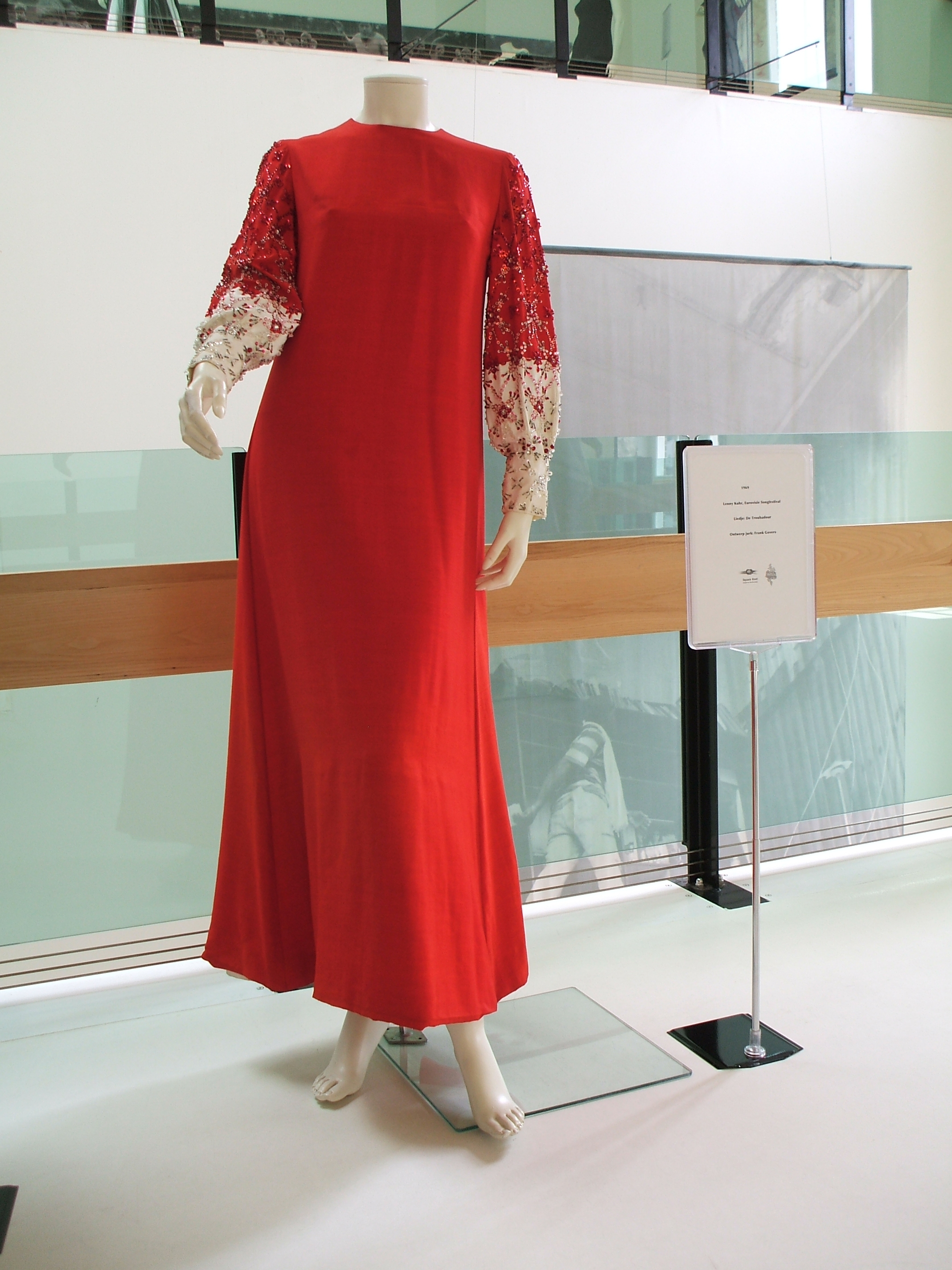 Lenny Kuhr's 1969 Eurovision Song Contest dress at the "May we have your dress, please?!" exposition for benefit of the Sandra Reemer Foundation